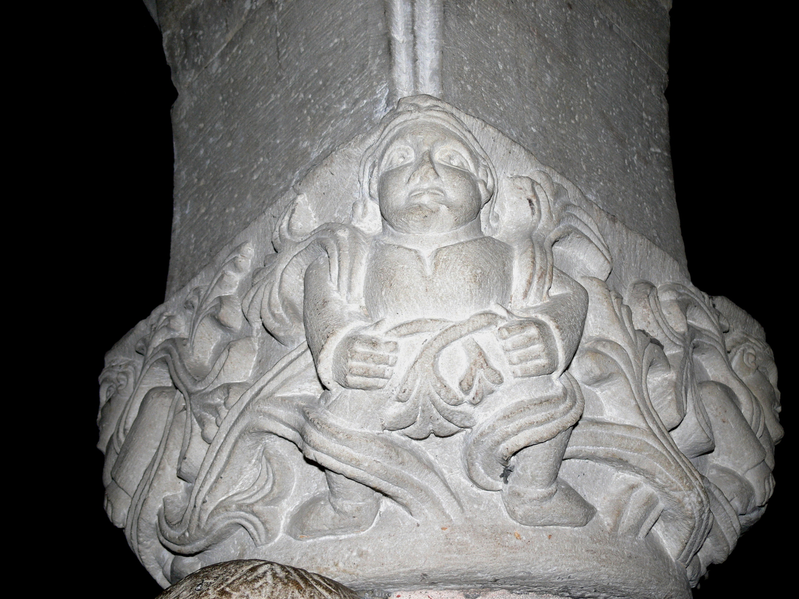 Lund Cathedral ( Sweden ). Crypt: Sculpted capital ( 1123 ) of a column.